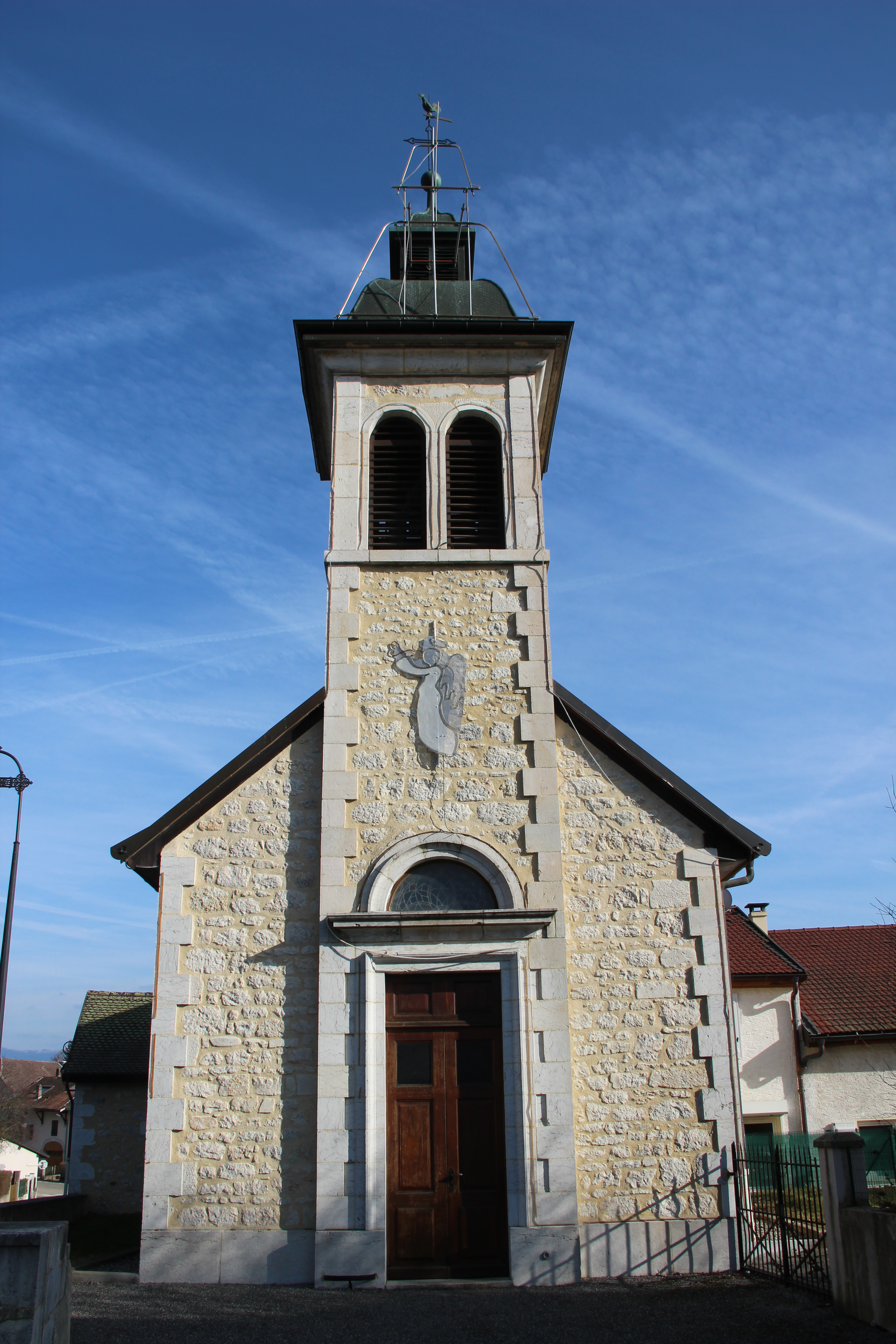 Church of Pougny